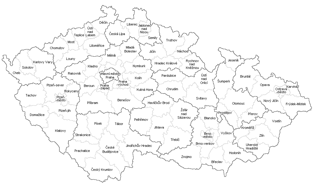 Czech districts in autonomous regions (constitutional Law No. 347/1997 Coll.) with current borders since January 1, 2007.